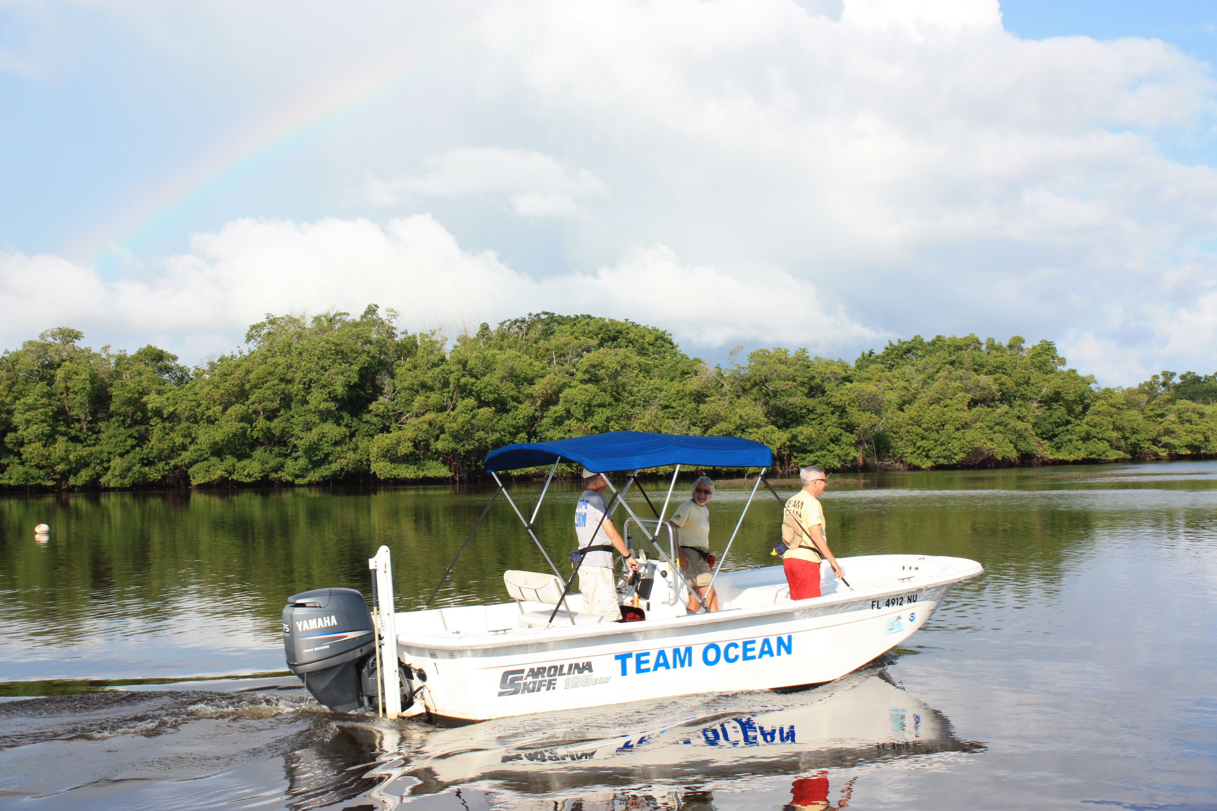 Team OCEAN navigating the waters